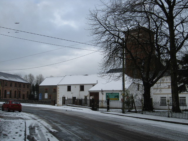 The old Convoy woollen mill This once great mill has been closed for some years but in its heyday employed more than 400 people. Some small firms and crafts now occupy the mill.